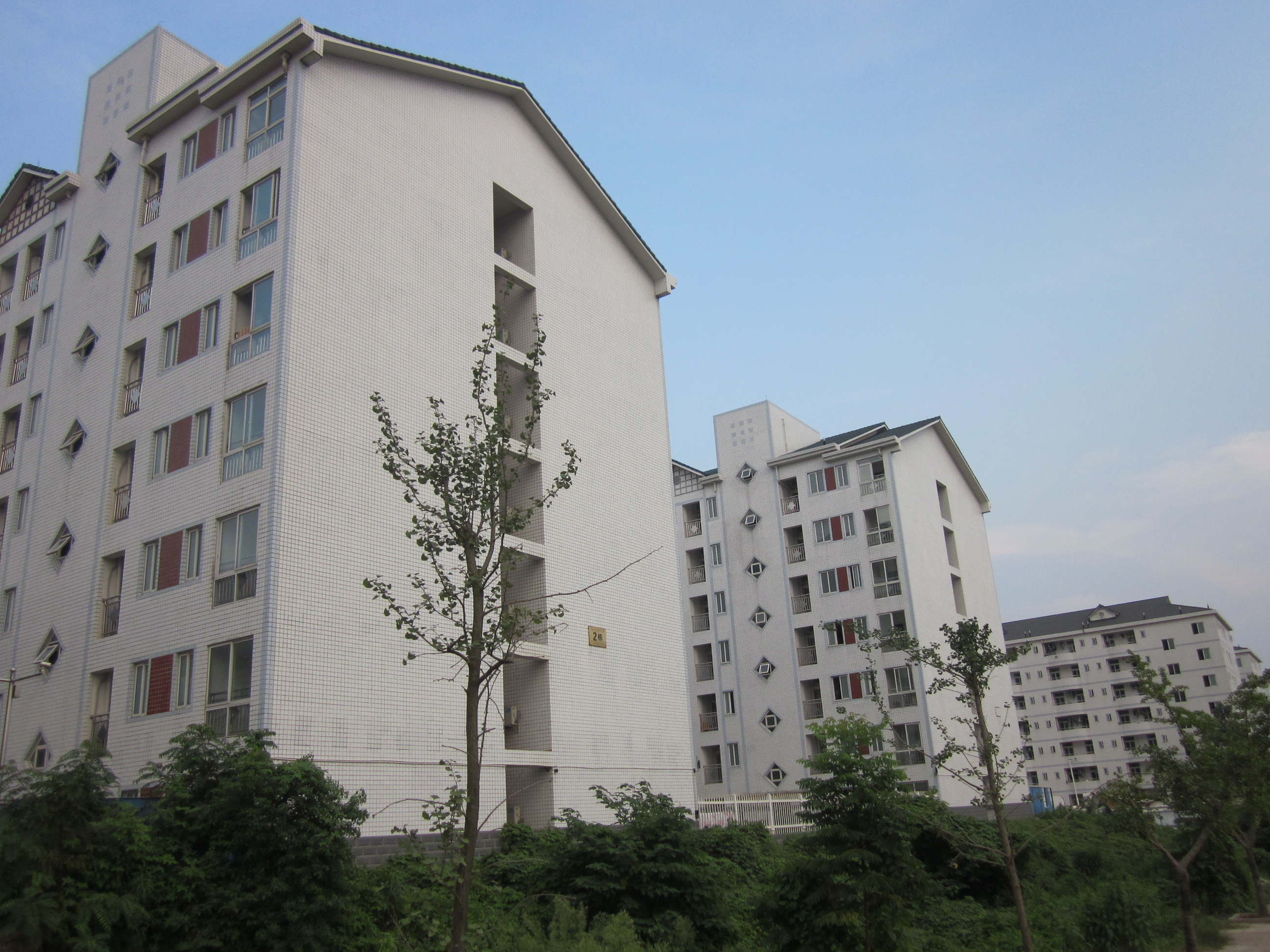 Central South University (CSU) located in Changsha, a historic and cultural city in Hunan province, central south of the People's Republic of China.